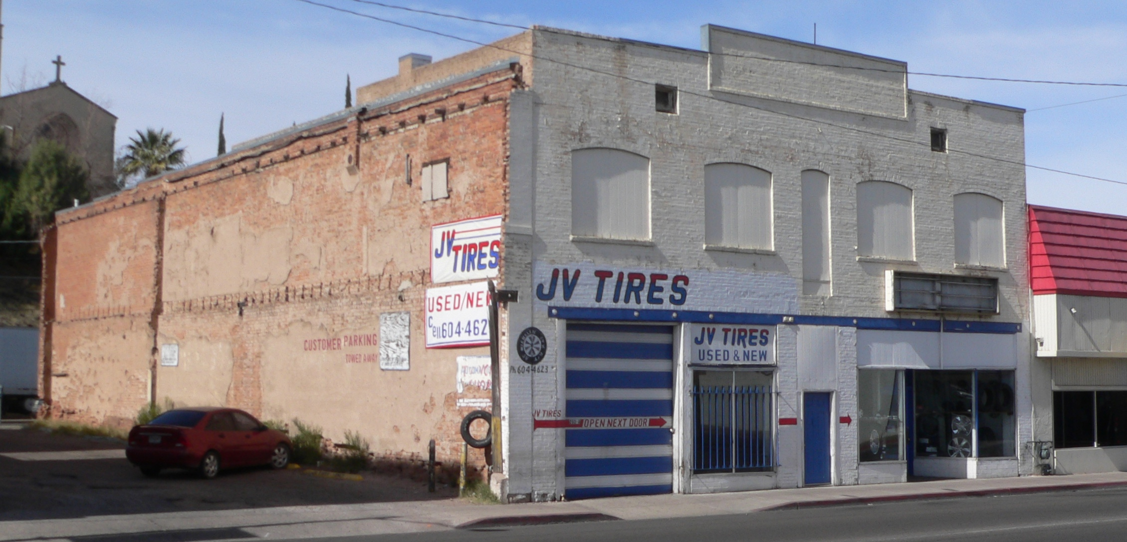 Burton building, located on Grand Avenue in Nogales, Arizona; seen from the south (the building faces Grand, which runs northeast-southwest). The building was identified by a ghost sign on the northeast side.